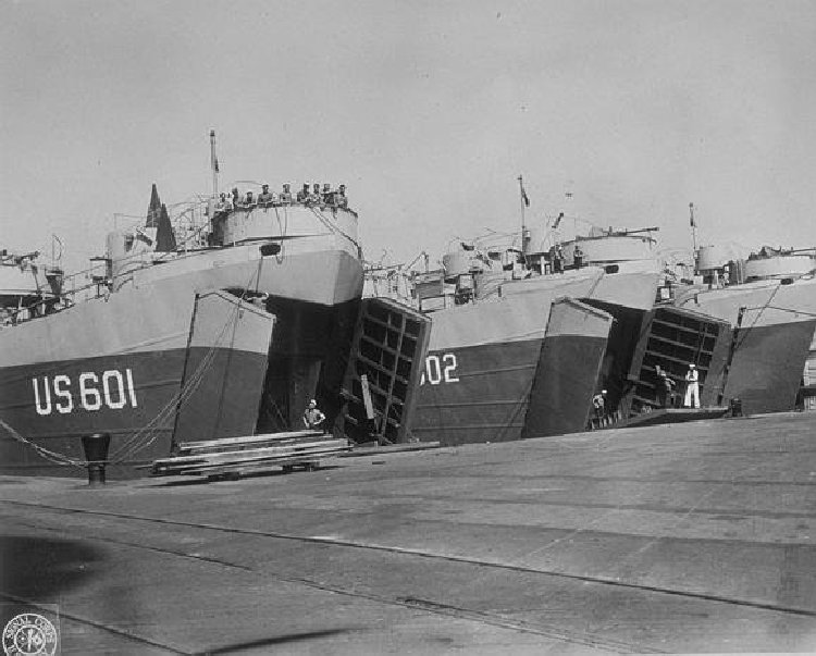 The U.S. Navy tank landing ships USS LST-601, USS LST-602 and USS LST-603 at the U.S. Naval Amphibious Base Little Creek, Virginia (USA), on 10 May 1944.